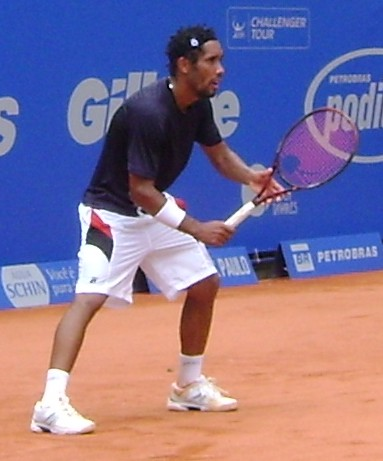 Júlio Silva, tennis player from Brazil, at São Paulo Challenger